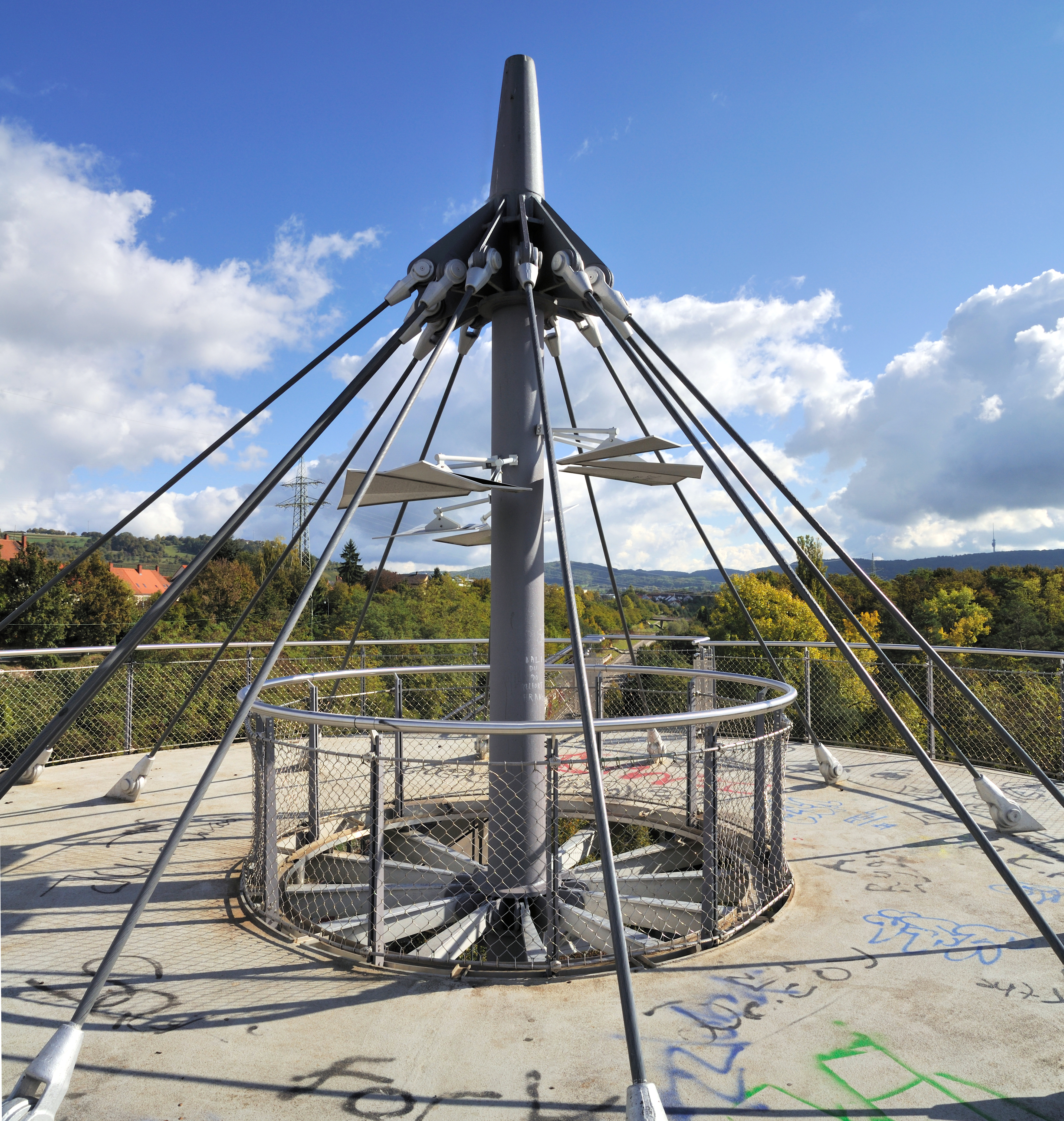 Weil am Rhein: Schlaich tower, observation level